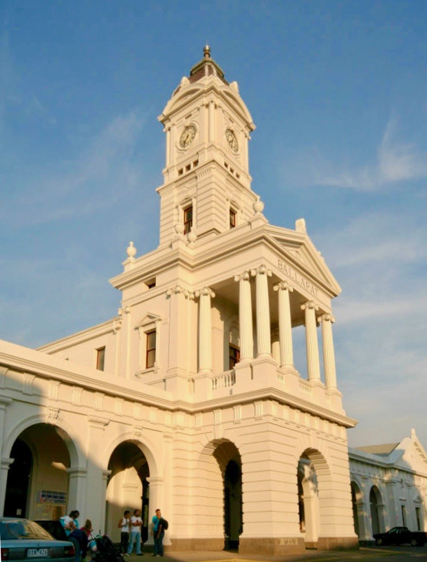 Ballarat railway station clocktower, Victoria, Australia